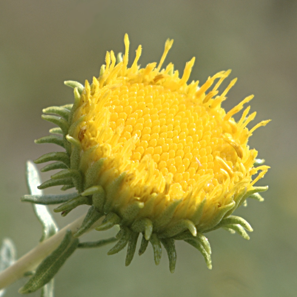 Flower of Grindelia squarrosa, Curlycup Gumplant, rayless (eradiate, discoid) form, which is sometimes considered a separate species, Grindelia nuda or Grindelia aphanactis. Streetside, Española, New Mexico.